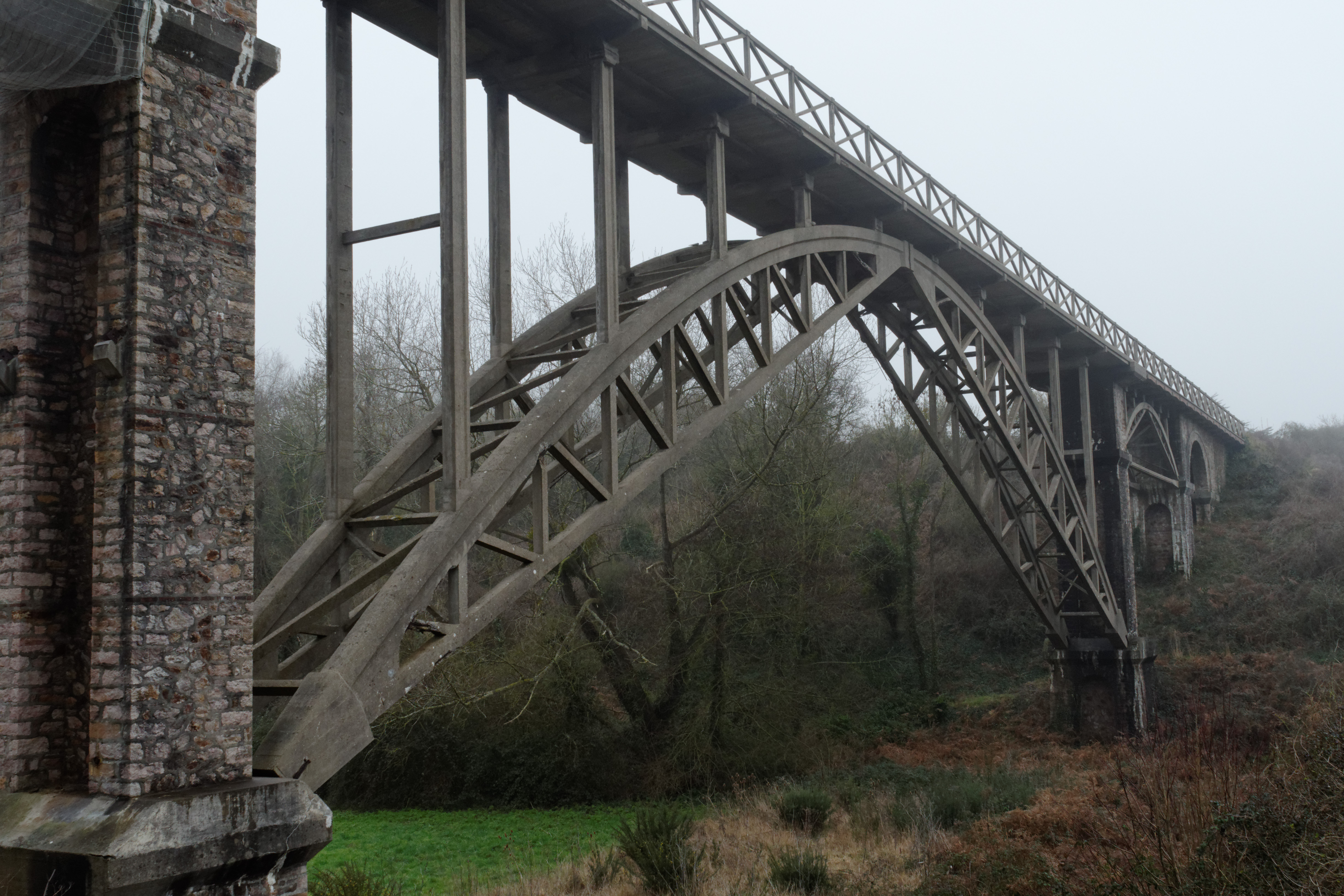 Architecture de Bretagne. Hardware : Nikon D7000 + Sigma 24mm F1.8 DG Asp EX. Critics for a beginner are welcome.